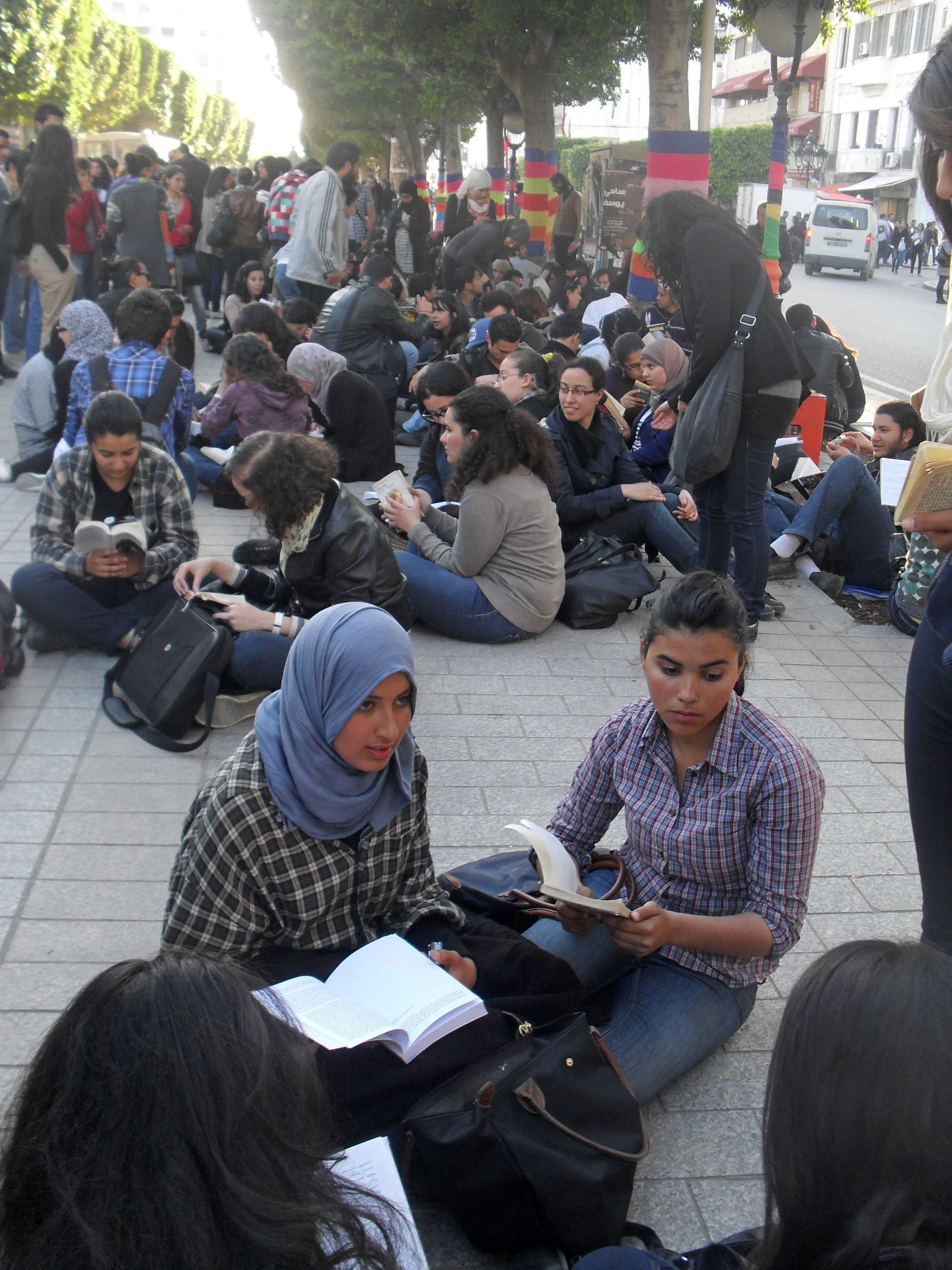 Tunisian students celebrate World Book Day by reading on Bourguiba Avenue.